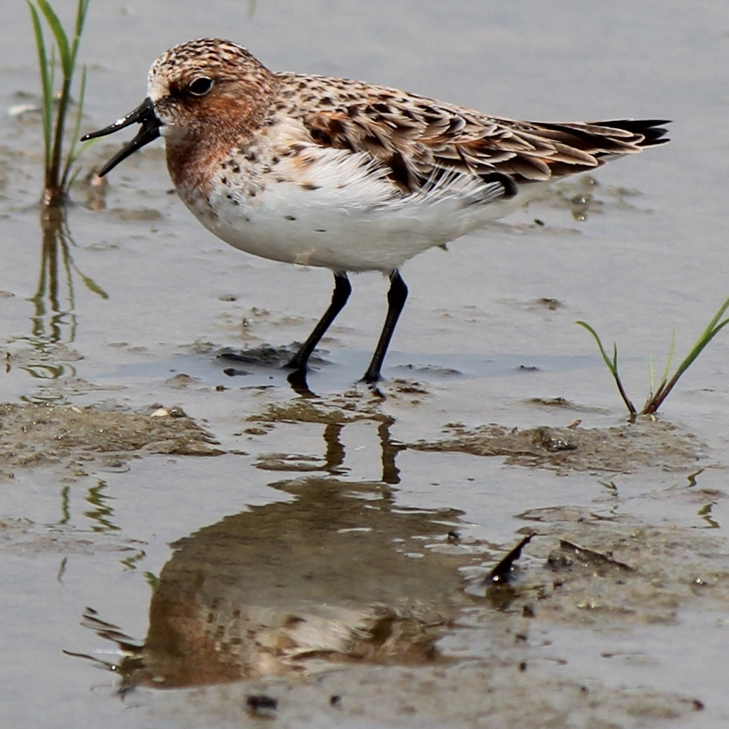 Calidris ruficollis (Red-necked Stint) summer plumage, crying in Japan